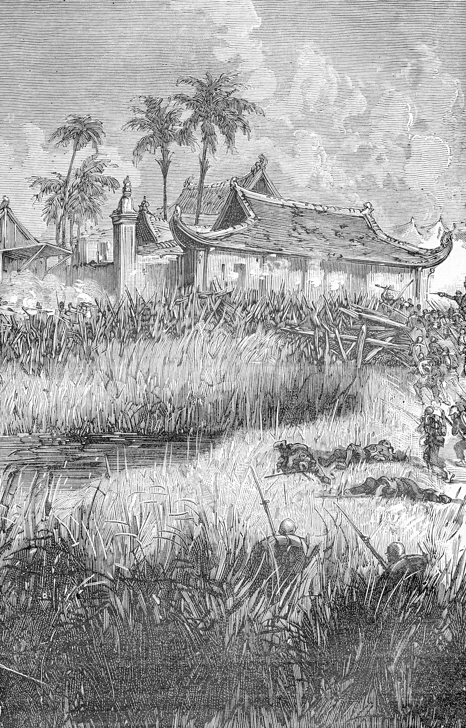 French troops capture the town of Makung in the Pescadores Islands, 31 March 1885